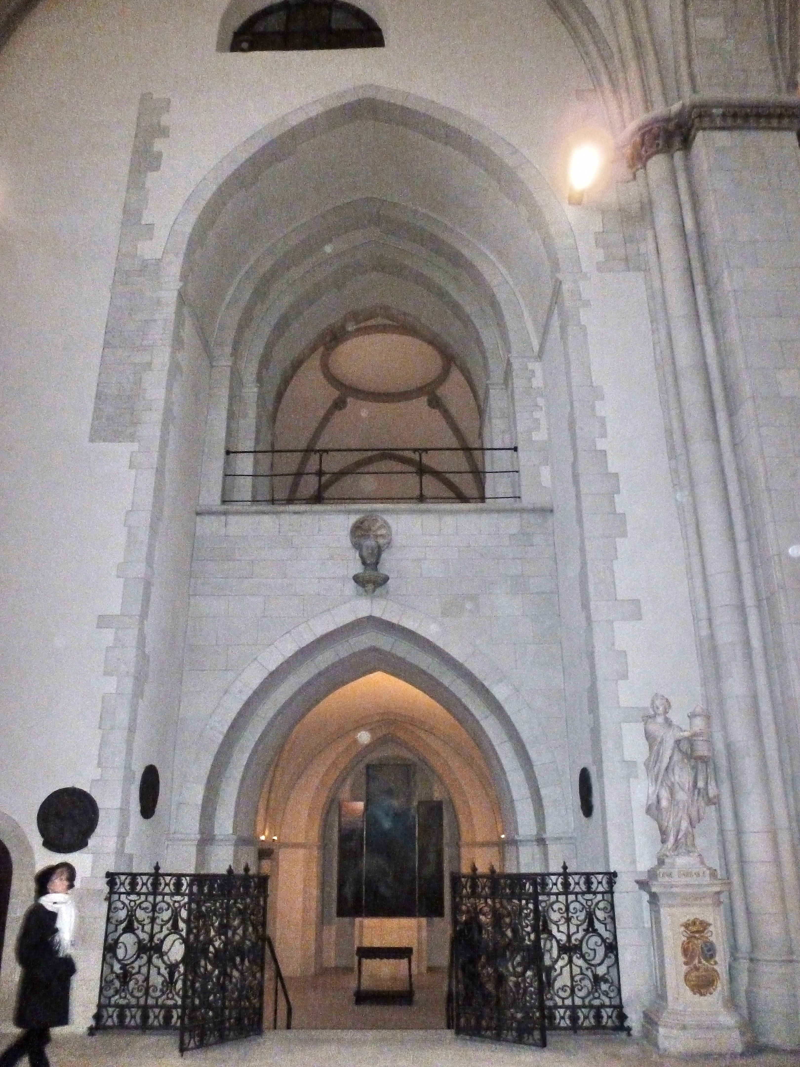 Paulusdom Südturm obere und untere Kapelle